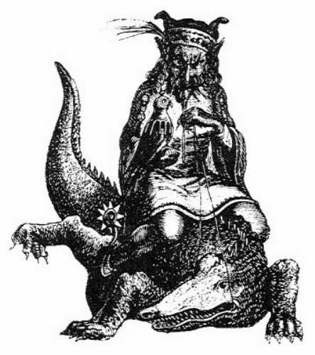 This picture was originally drawn in 1863 for an edition of the Dictionnaire Infernal. The digital version was taken from this site. Their policy on copyright can be found here.